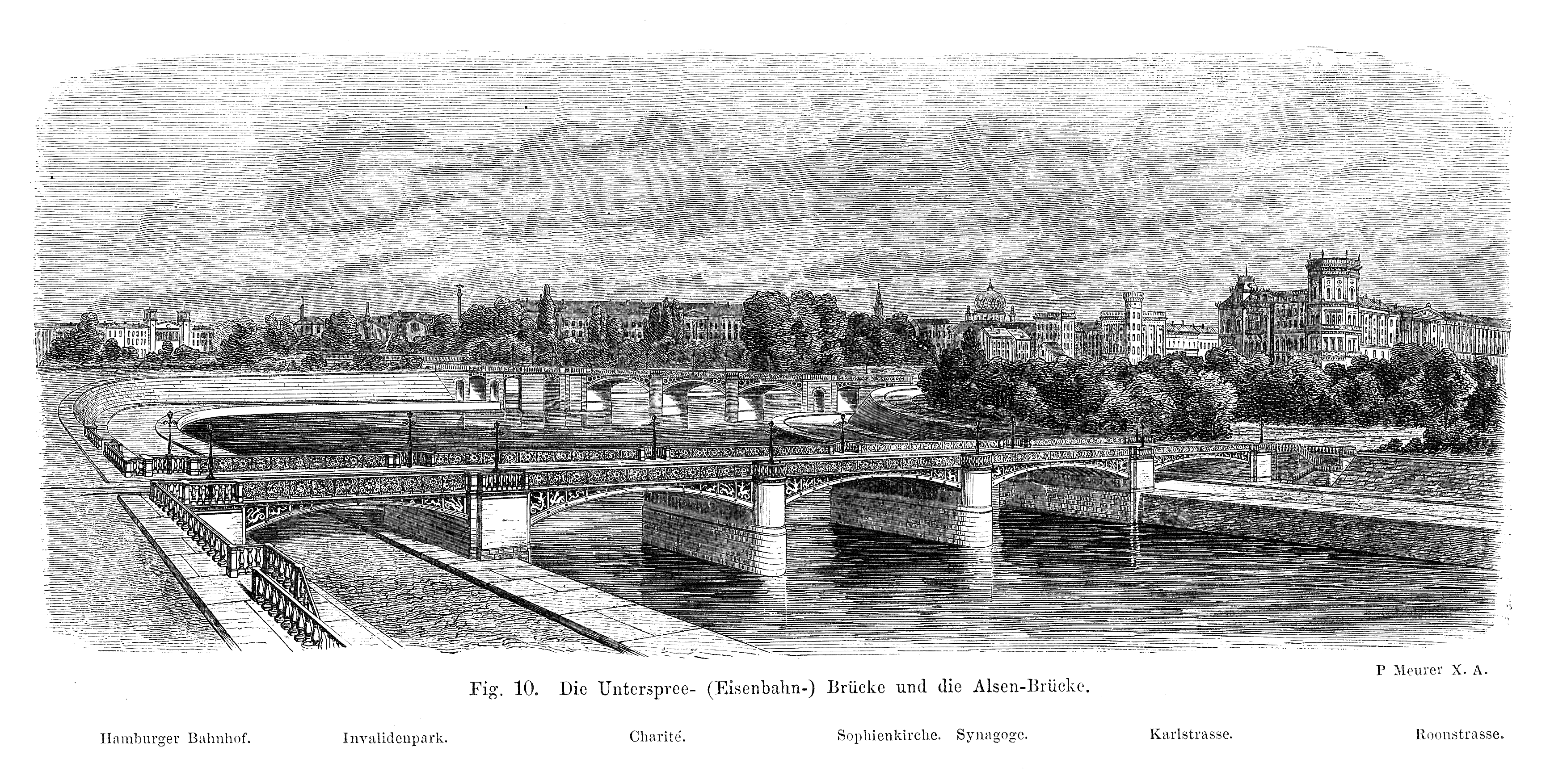 Bridge crossing the Spree river in Berlin, built for the street-level inner-city connecting railway ("Berlin Verbindungsbahn") linking the main railway terminal stations in Berlin. This wrought-iron bridge was built 1864/65 to replace the original wooden bridge built in 1851, which was actually located 70 meters upstream. The railway traffic ended after the Berlin Ringbahn replaced the "Verbindungsbahn" in 1871. The bridge pictured here proved to be unstable and was demolished in 1884 and demolished in 1887. Its place took the Moltke Bridge, built from 1886 until 1891, and which still stands today.